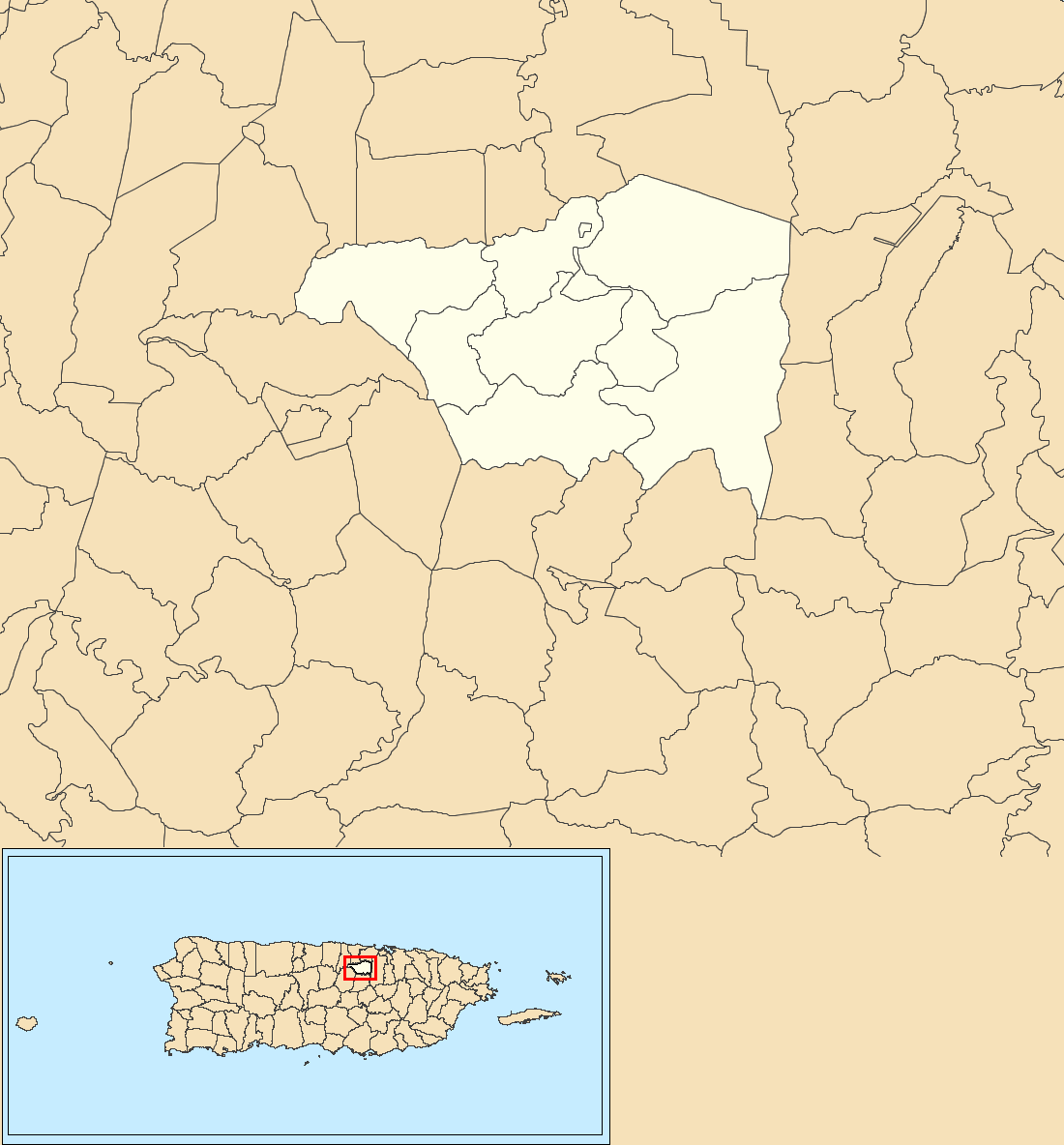 Barrios in the municipality